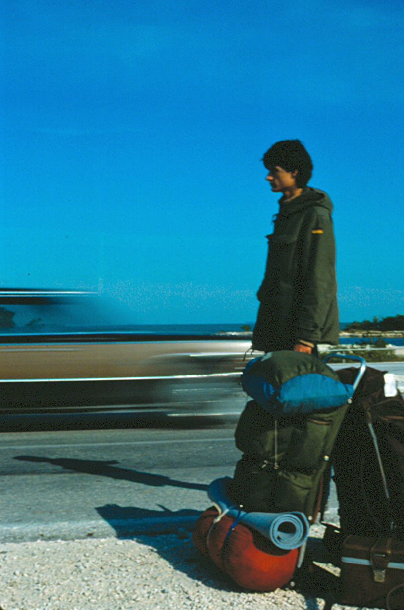 Hitchhiking on the Overseas Highway in January 1982 I don't remember the name of this temporary travel companion, but I believe that the poor resolution of the image and the passage of time sufficiently anonymiced the individual.